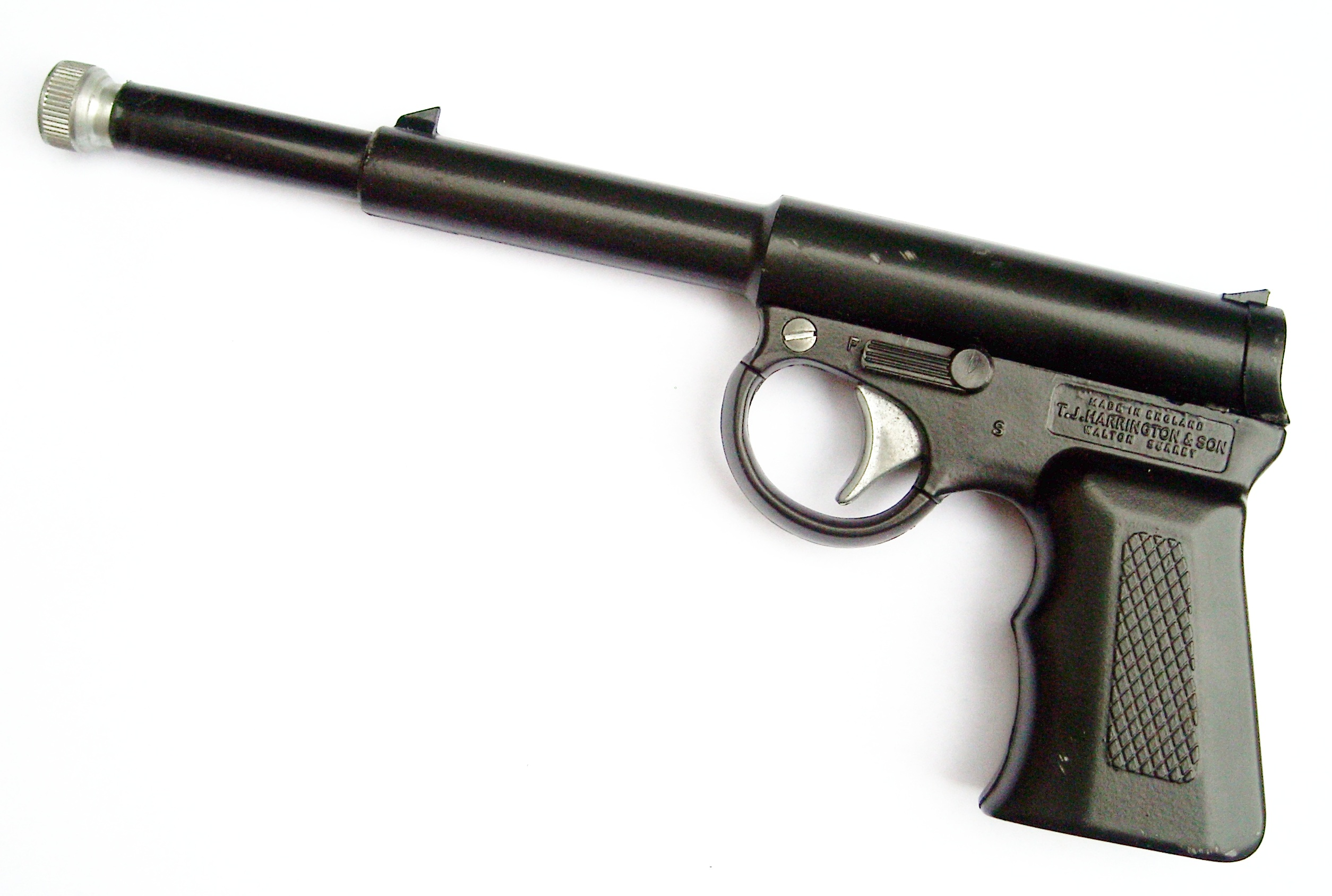 An uncocked Gat air pistol pointing right. The safety catch is visible and off.